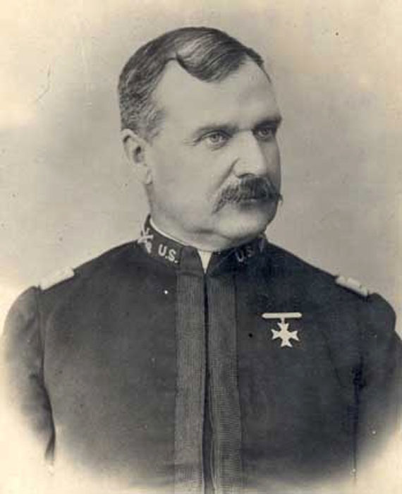 Lieutenant Col. Homer W. Wheeler commanded the District of Hawaii from 1910-1911.